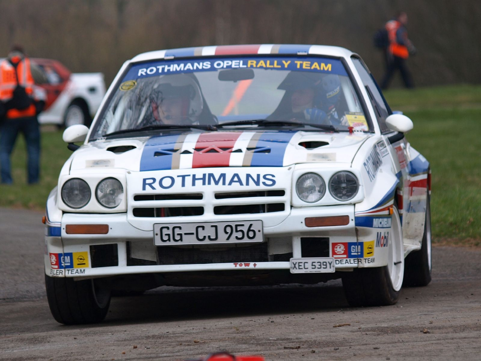 Guy Fréquelin's Opel Manta 400 driven at Race Retro 2008, the International Historic Motorsport Show, at Stoneleigh Park, Coventry, England.